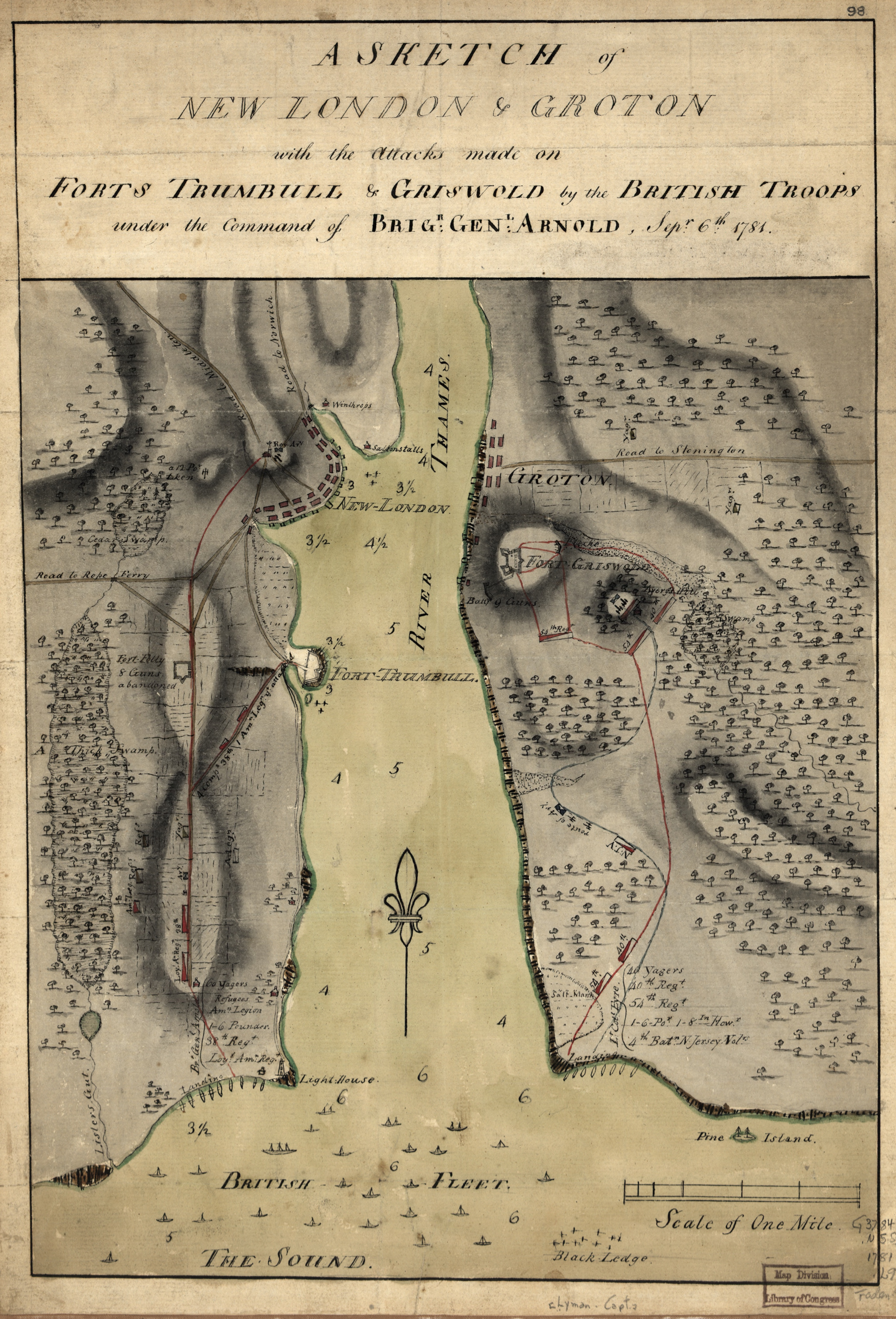 A military sketch of the harbor of New London, Connecticut showing the military movements of the raid conducted by Benedict Arnold in September 1781 that included the Battle of Groton Heights.